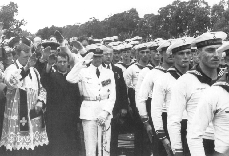 Hans Langsdorff and his crew at Rio de la Plata in December 1939